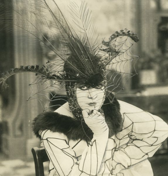 Publicity Still of Valeska Suratt as Zena the temptress for the 1917 silent drama film The New York Peacock.